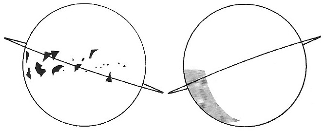 Part of Figure 1, Photographic Coverage showing spacecraft orbit and coverage on near side (left) and far side (right) of Lunar Orbiter 3.